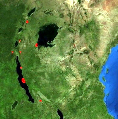 Distribution Ashy Red Colobus (Piliocolobus tephrosceles)